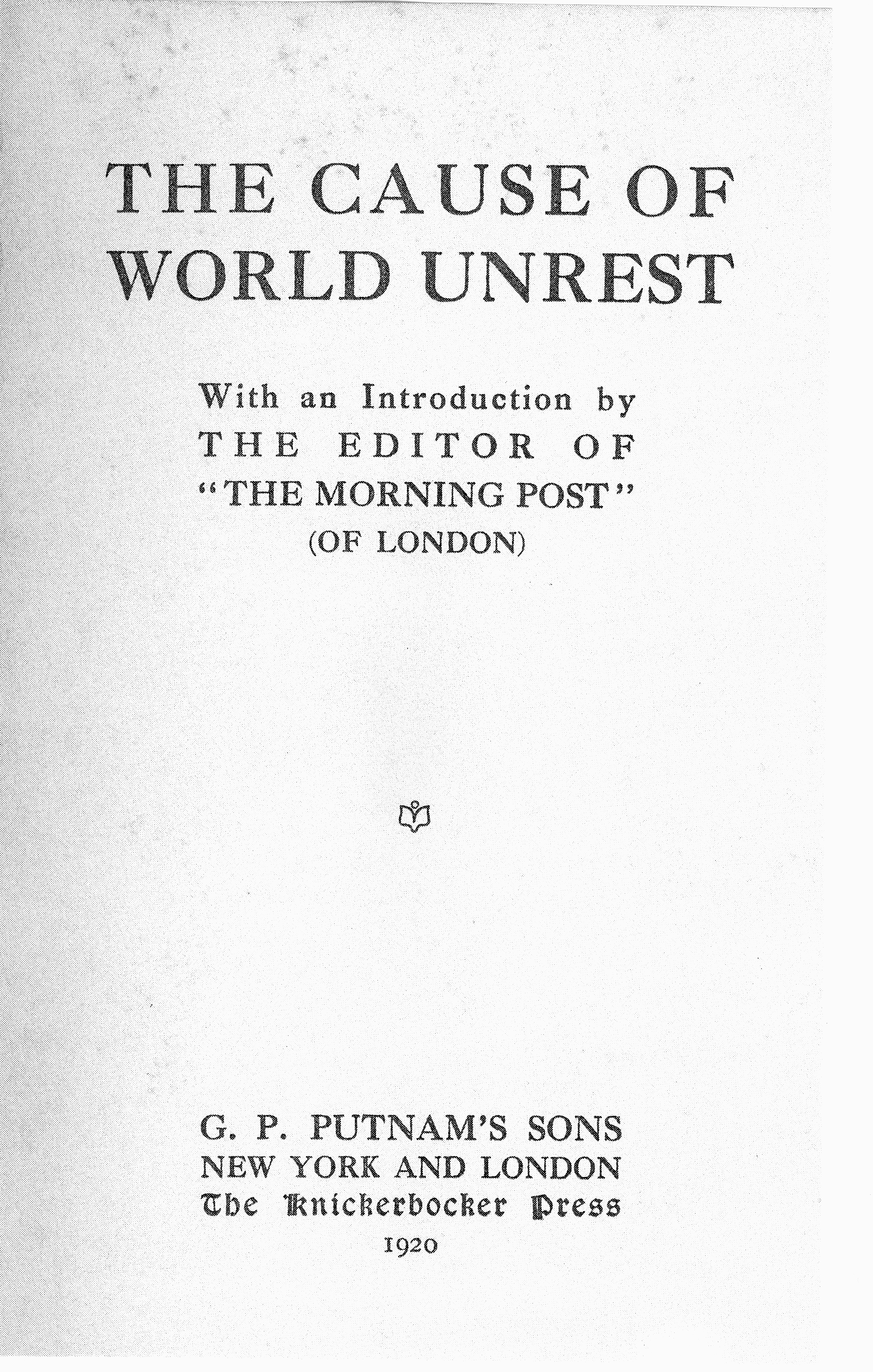 Title page, 1920 Imprint